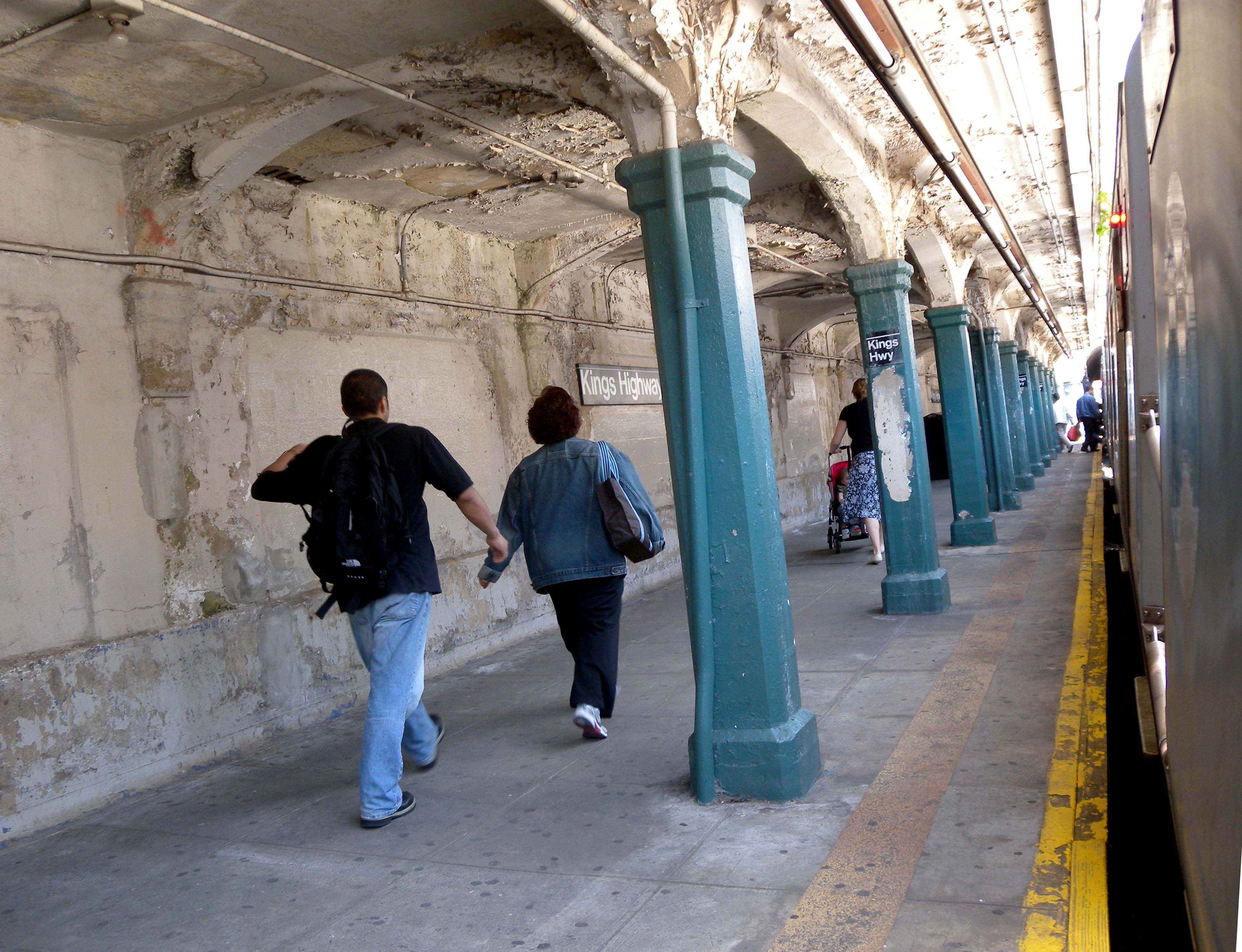 Looking east along Kings Highway (BMT Sea Beach Line) southbound platform.